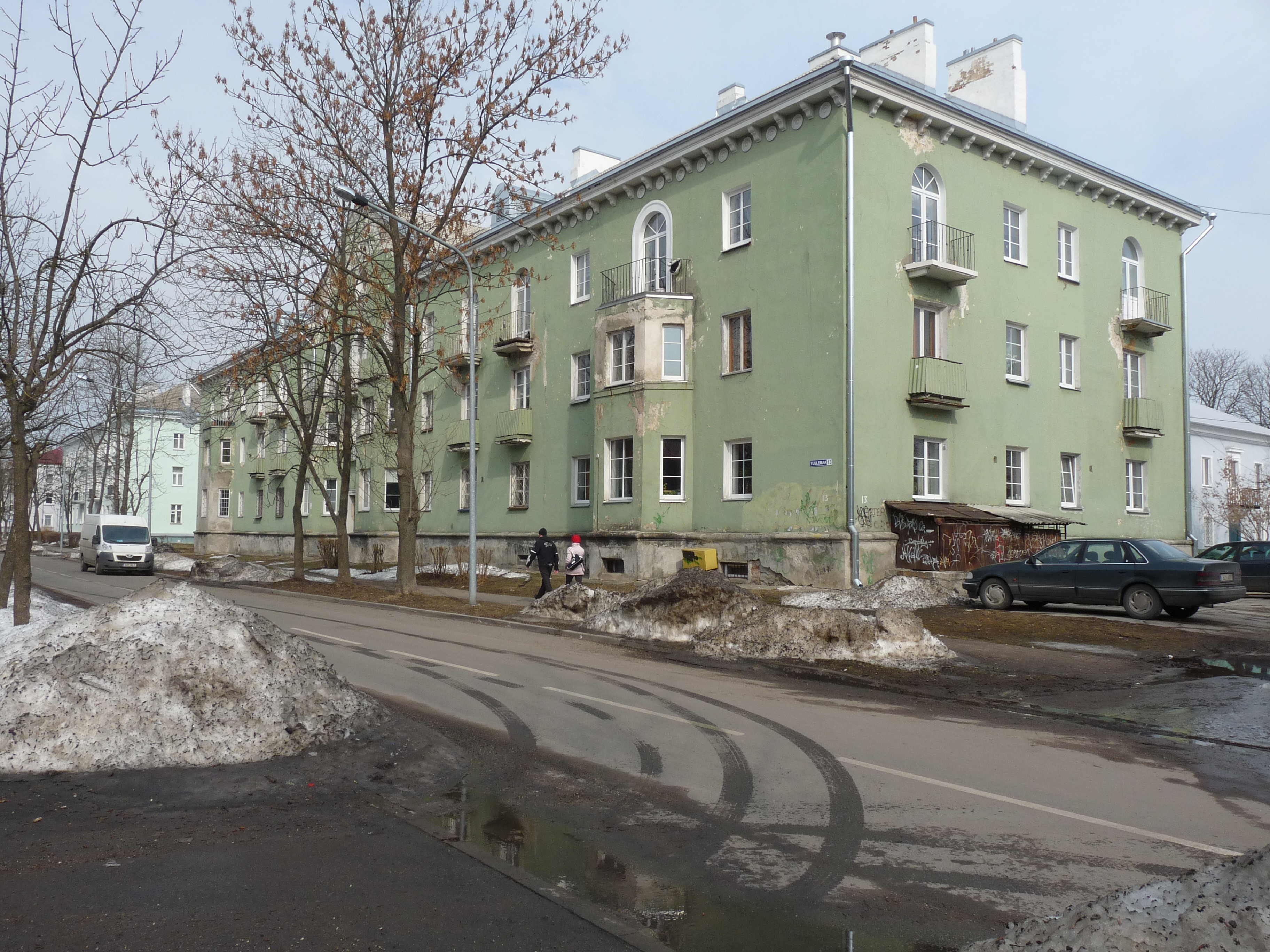 Stalin era apartment building